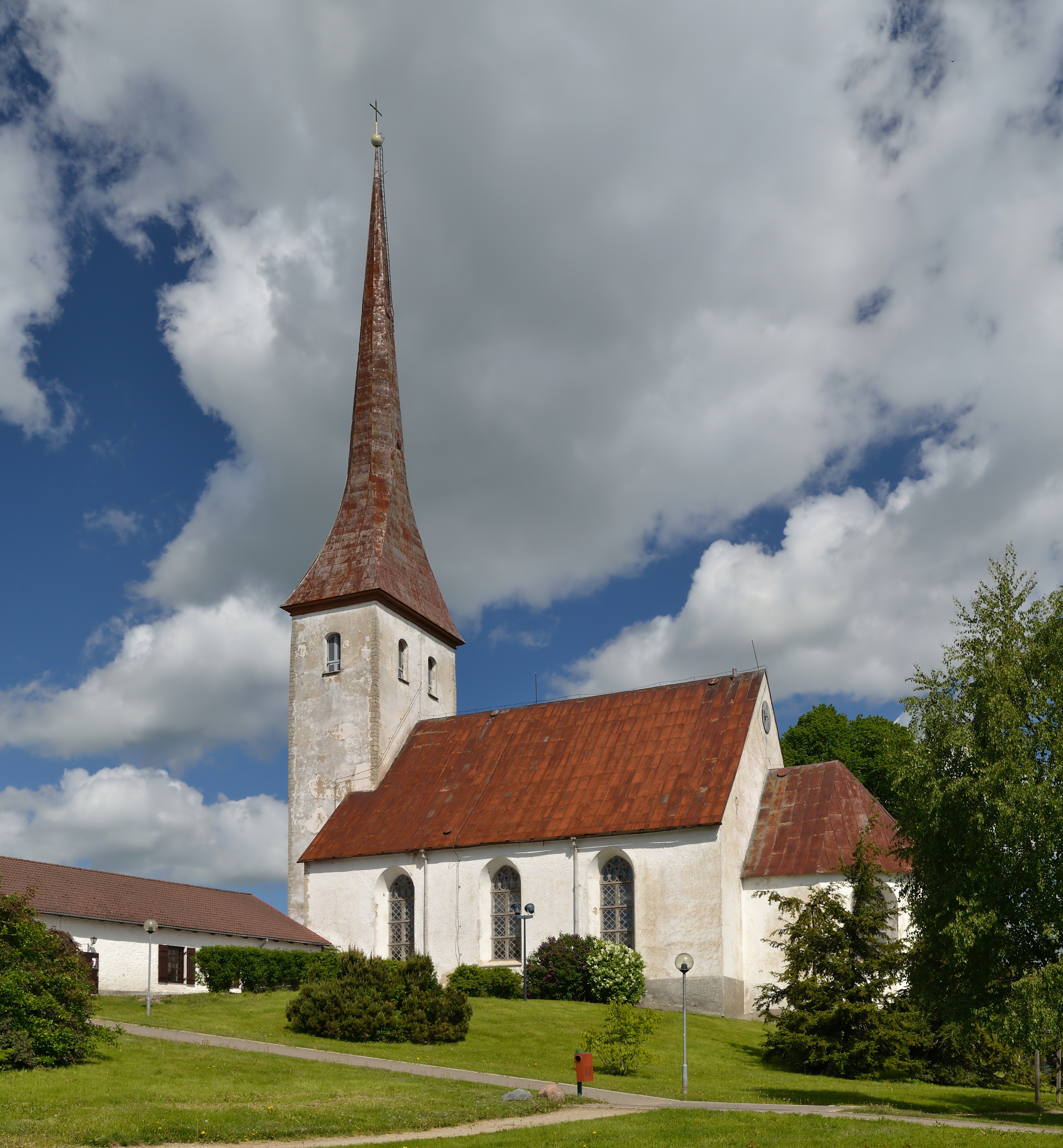 Rakvere church